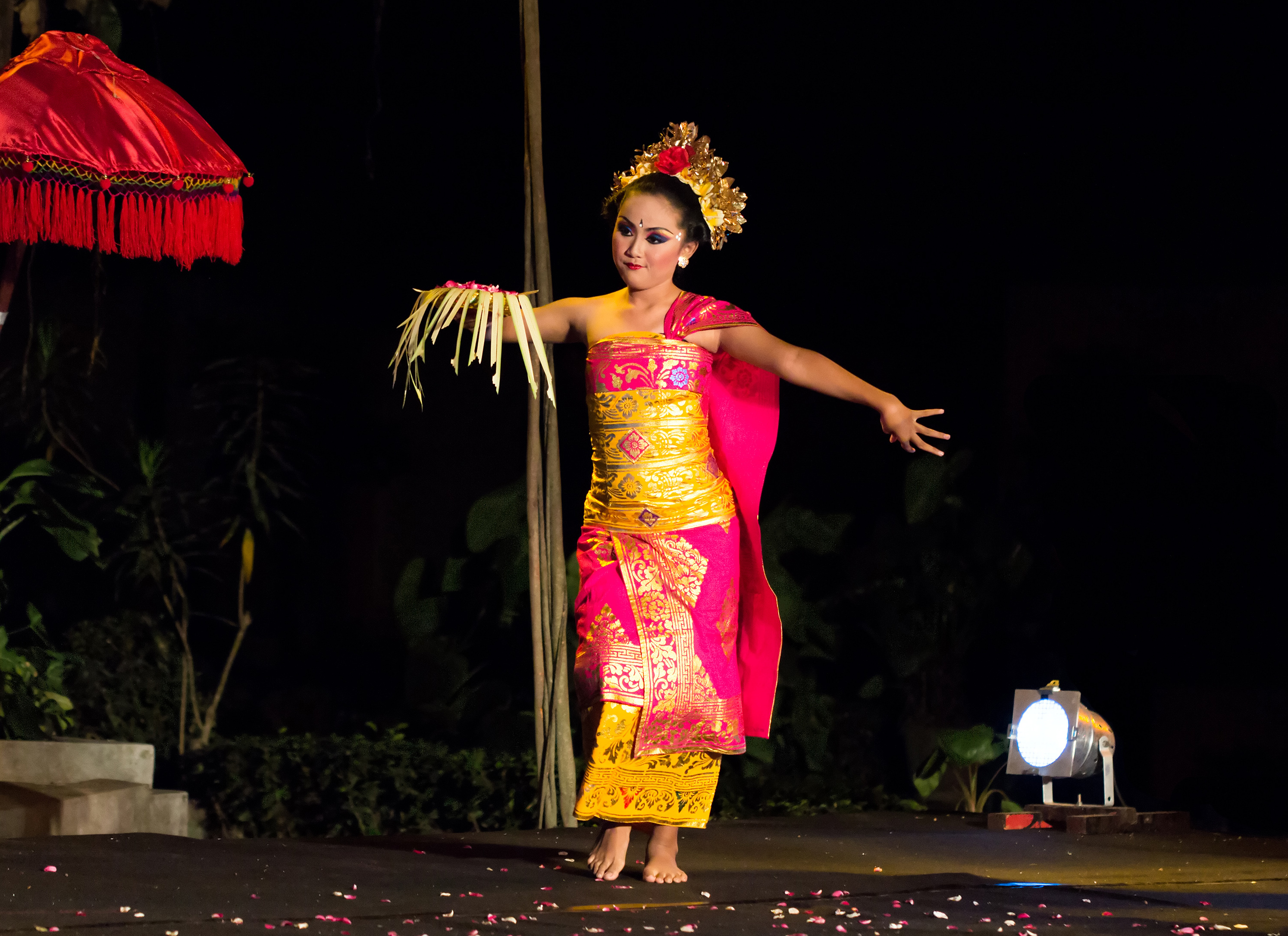 Sanata Dharma University's Sekar Jepun, a Balinese dance troupe, celebrates its 17th anniversary. Here the Panyembrama dance is performed.